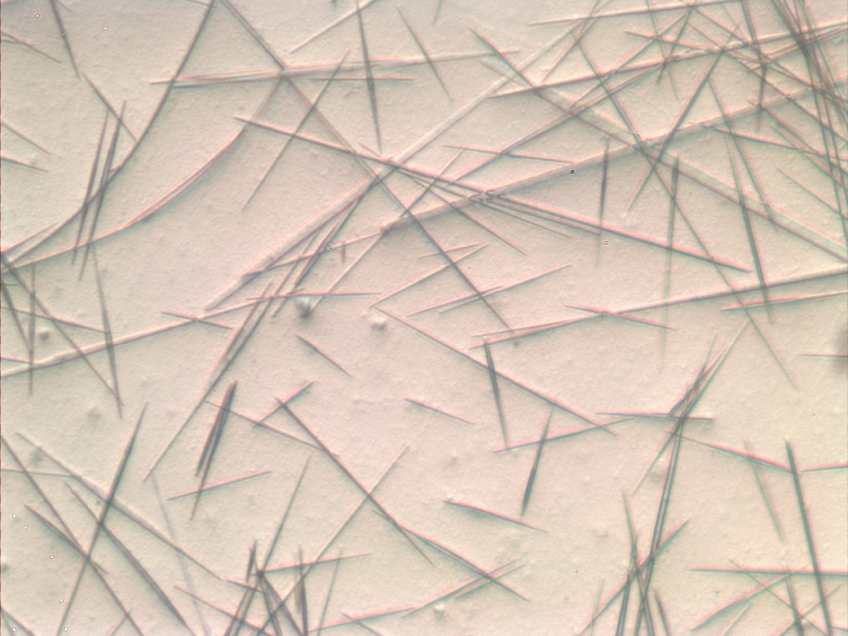 Tin dioxide crystals at optical microscope.